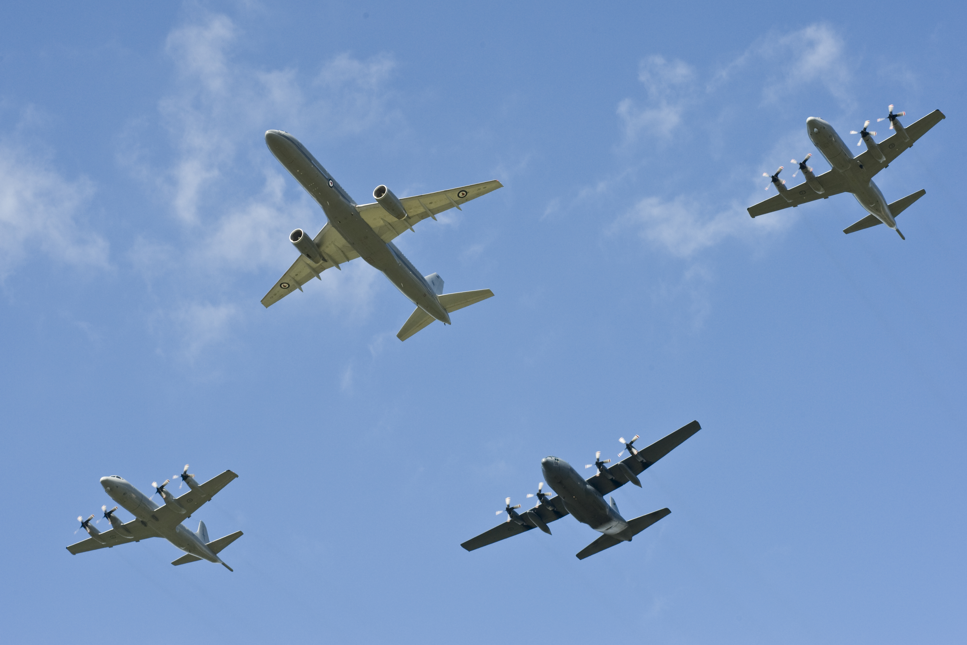 Air Force Boeing 757, P3K Orion and C-130 Hercules in formation. AK 09-0151-071 Crown Copyright 2011, NZ Defence Force – Some Rights Reserved.